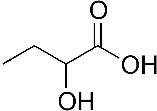 Chemical structure of 2-hydroxybutyric acid